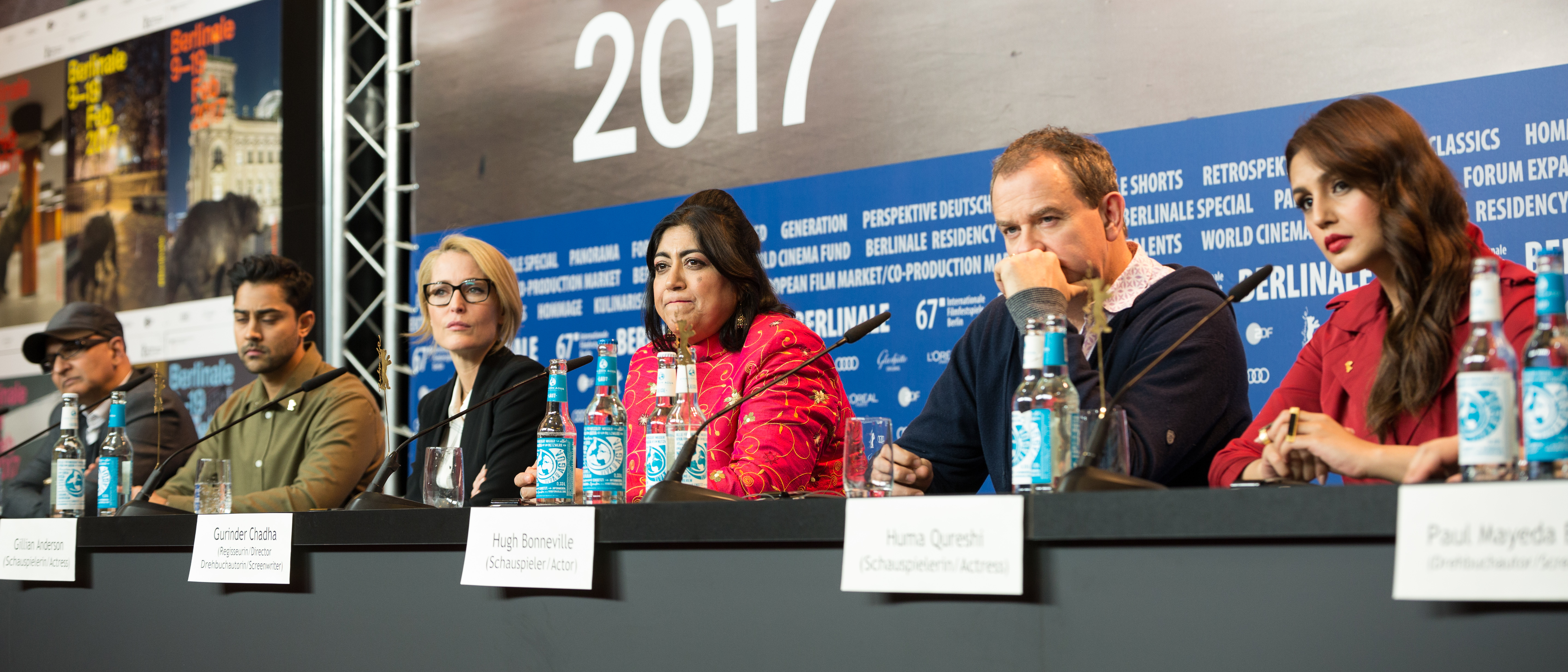 The film team of Viceroy's House at the Berlinale 2017